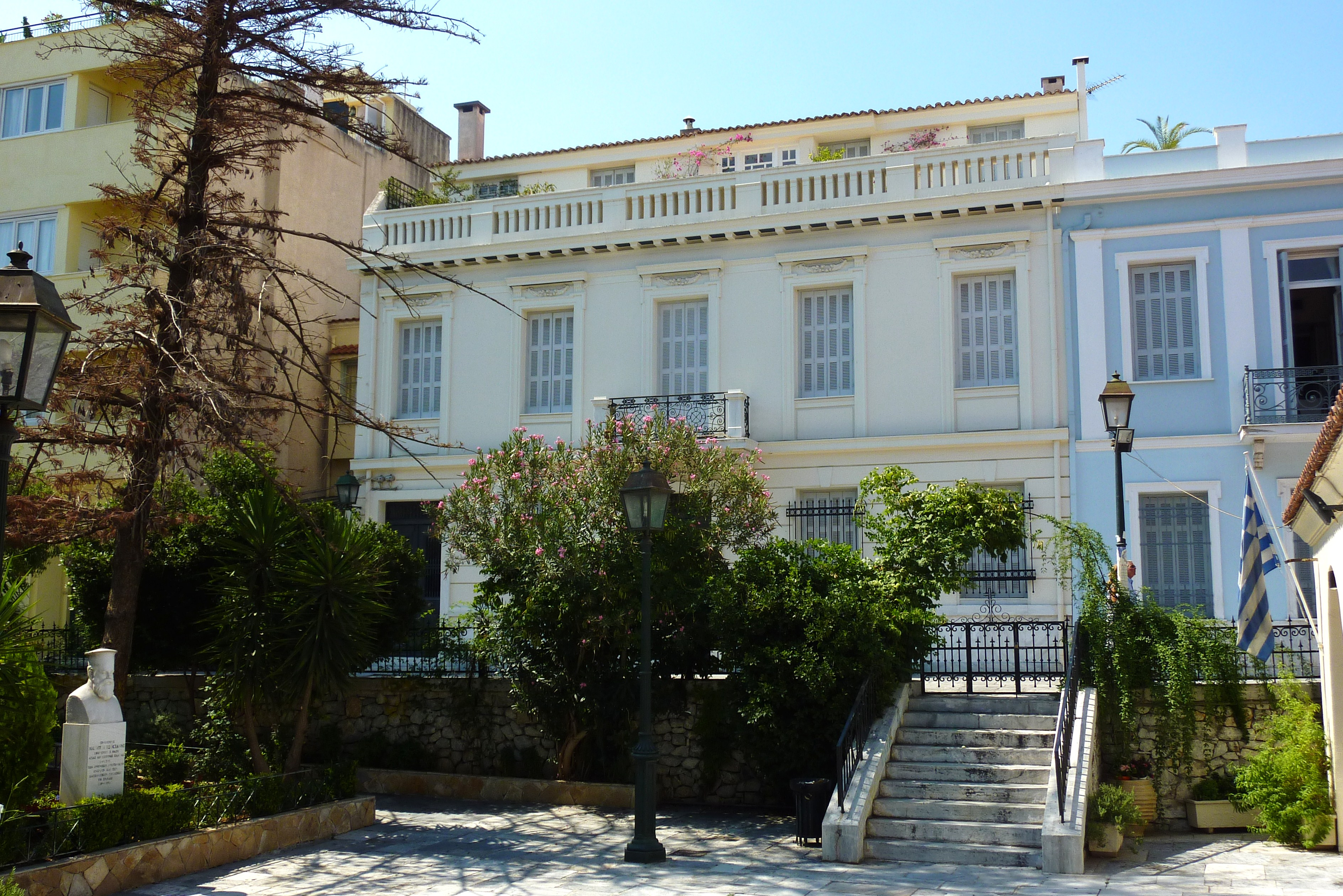 Plaka neighbourhood,Athens